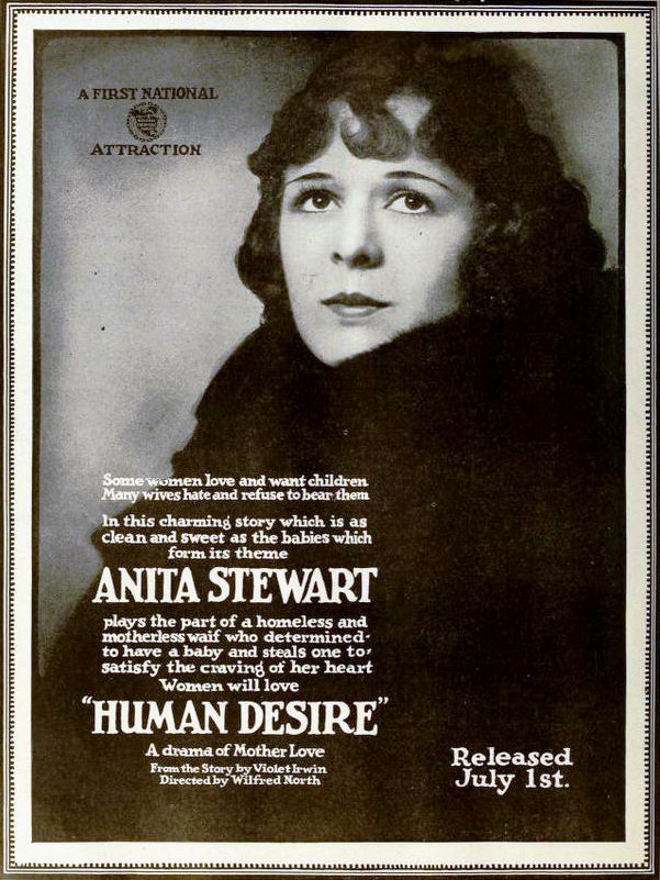 Ad for the American film Human Desire (1919) with Anita Stewart, on page 1890 of the June 28, 1919 Moving Picture World.